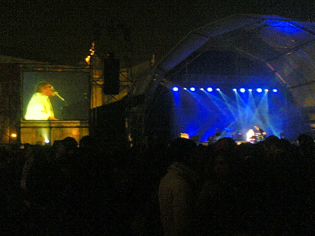 A live concert by José Cid, in Lisbon, Portugal, January 1st 2007